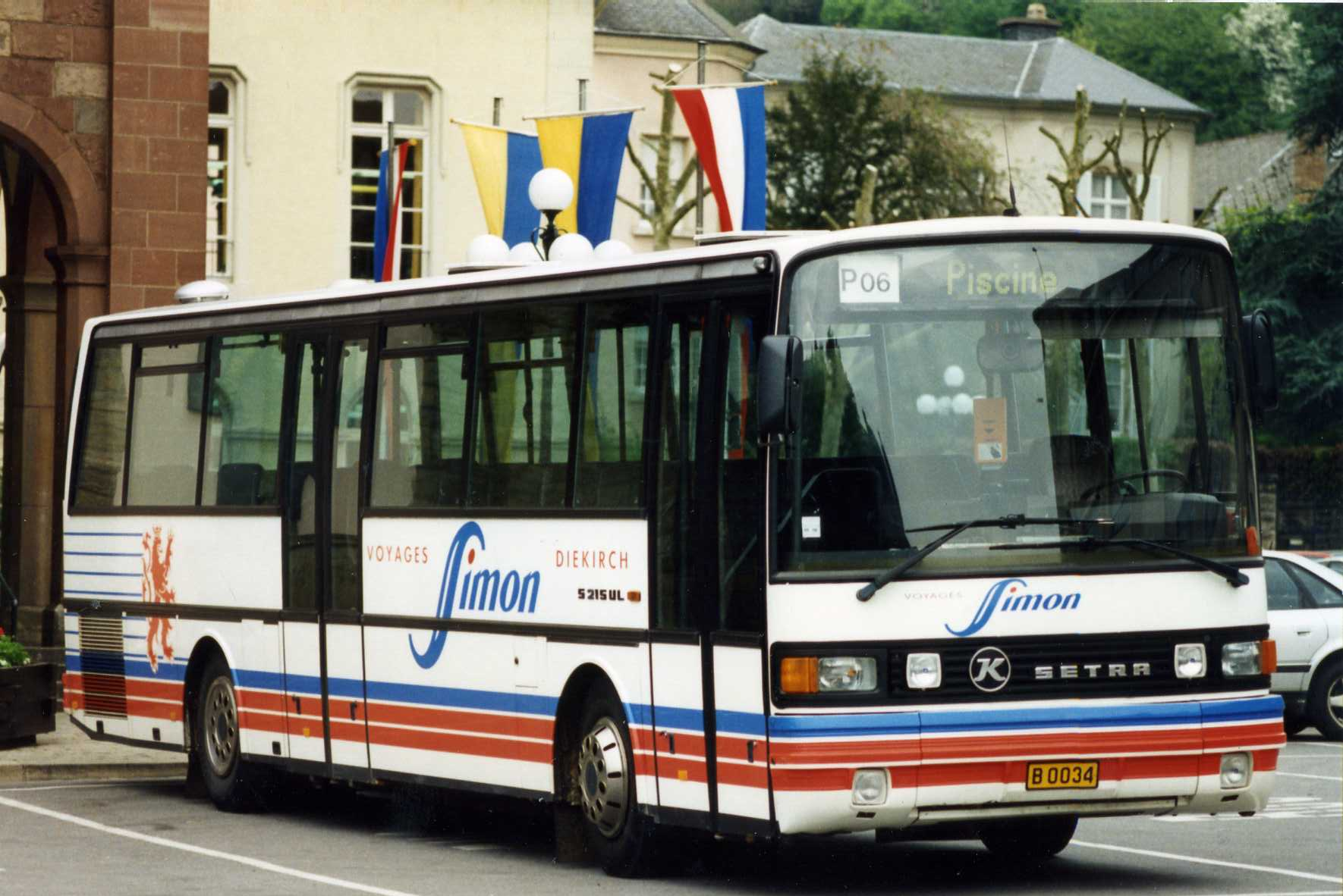 Simon of Diekirch. The firm also has its finger in other pies, such as travel agencies, motor dealerships etc. All bus routes in Luxembourg can be found here Simon operates the following route numbers 403; 447; 502; 503; 505; 521; 535; 540; 555; 556; 557; 560; 562; 565; 575; 610; 618; 625; 640; 642; 650; 660; 665; 752; 825; 934; 936; 940; 942; 944; 946; 948; The P06 to the swimming baths is probably a schools contract. (P is silent as in bathing)